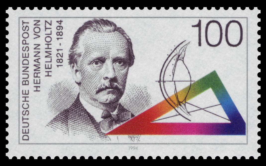 100th day of death of Hermann von Helmholtz (1821—1894)